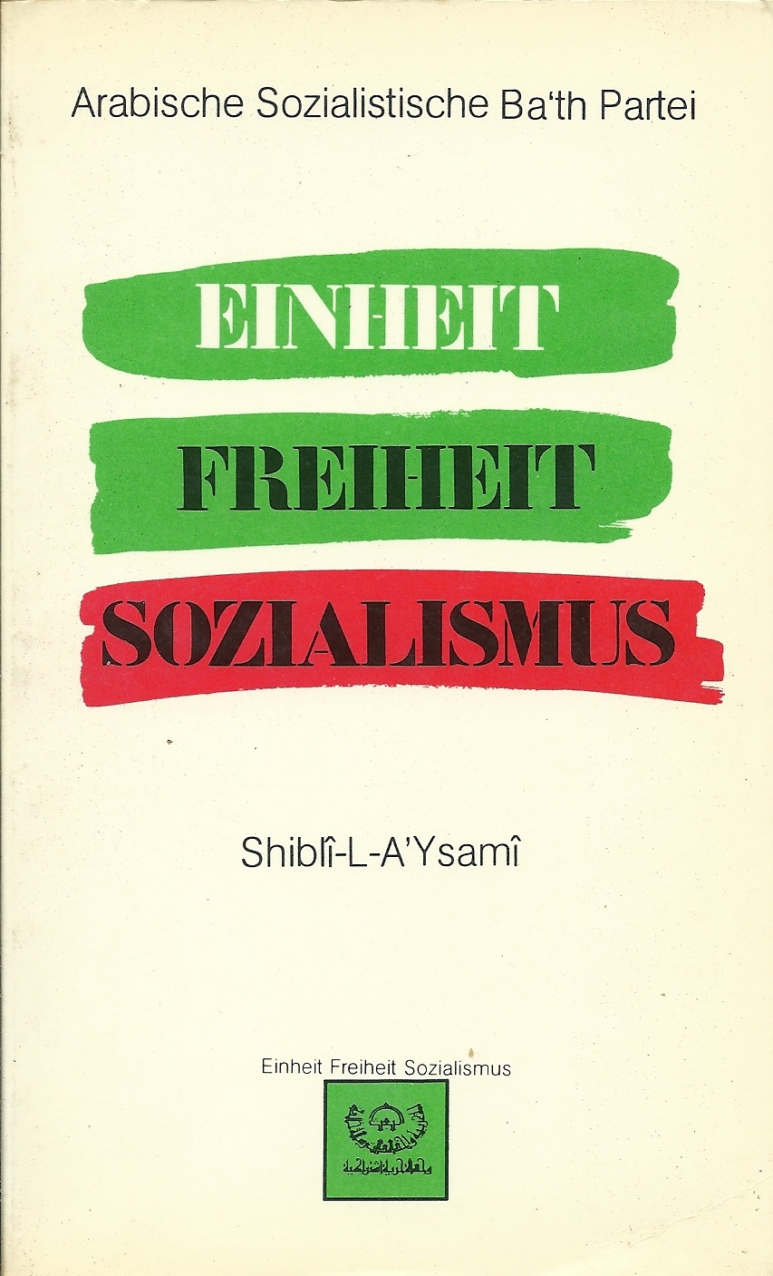 Front cover of Shibli al-Aysami's book "Unity, Freedom, Socialism" about the concepts of the Arab Socialist Ba'th Party